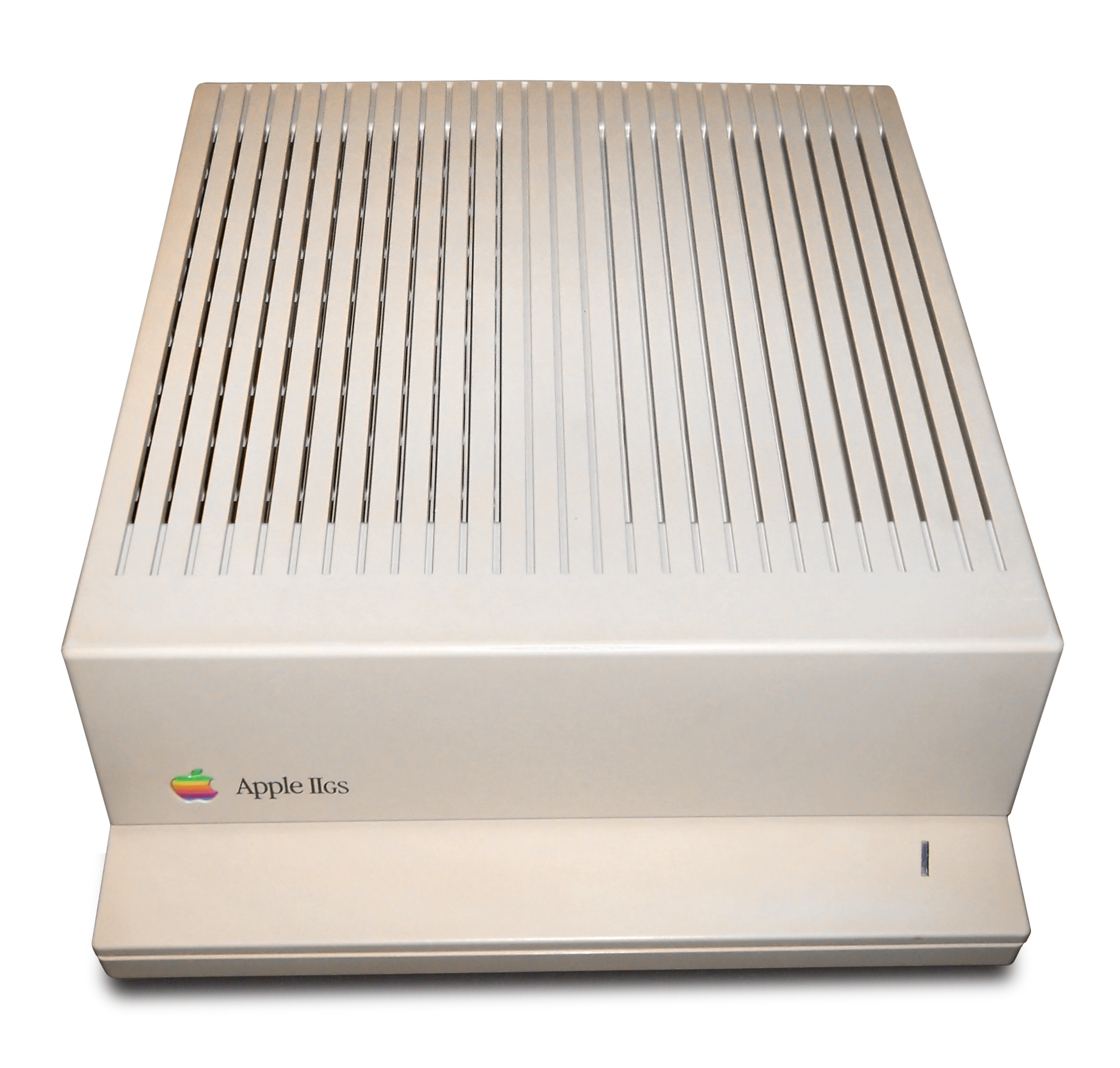 Apple IIgs